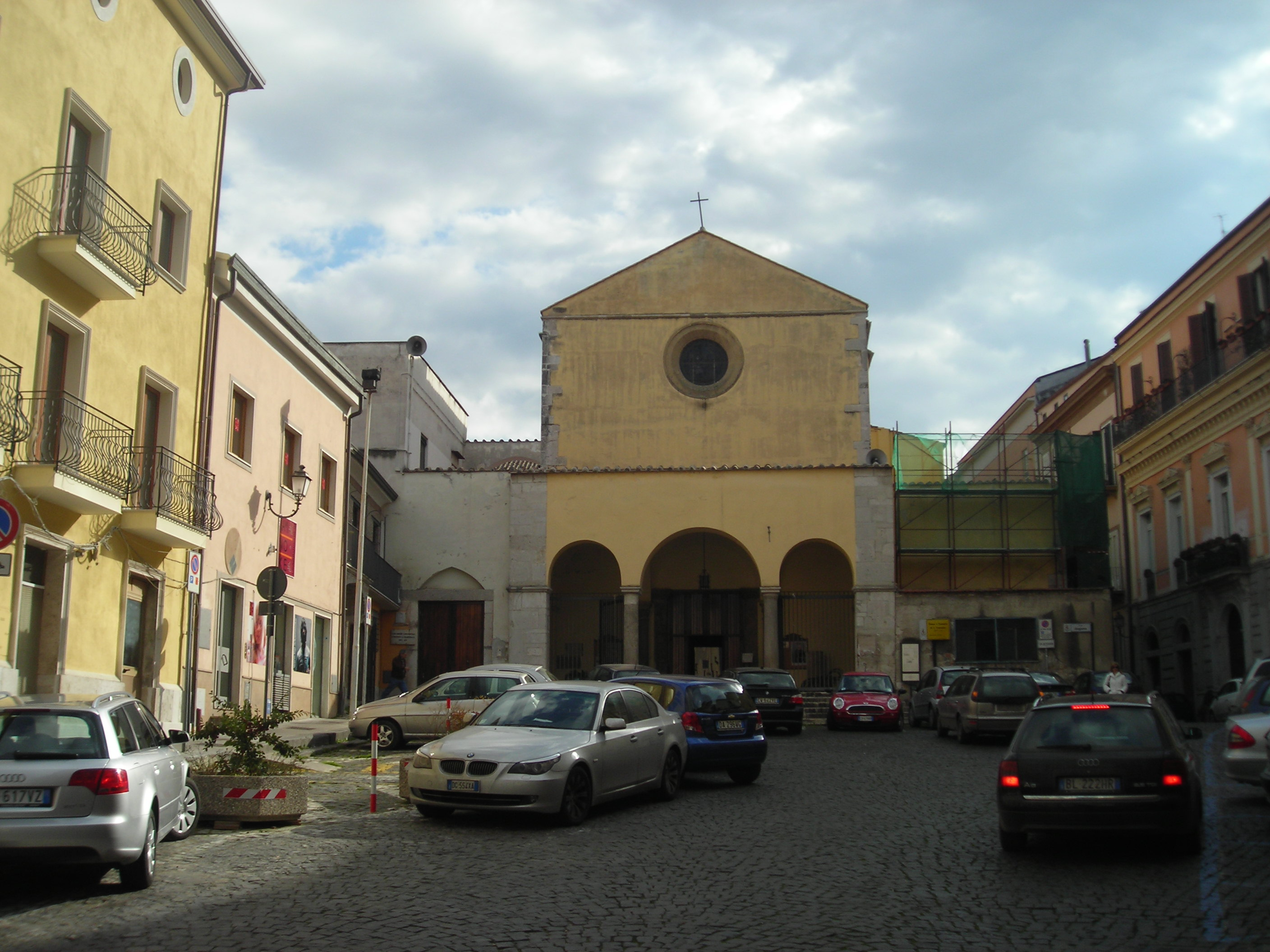 The gothic church of San Francesco alla Dogana, Benevento, Italy